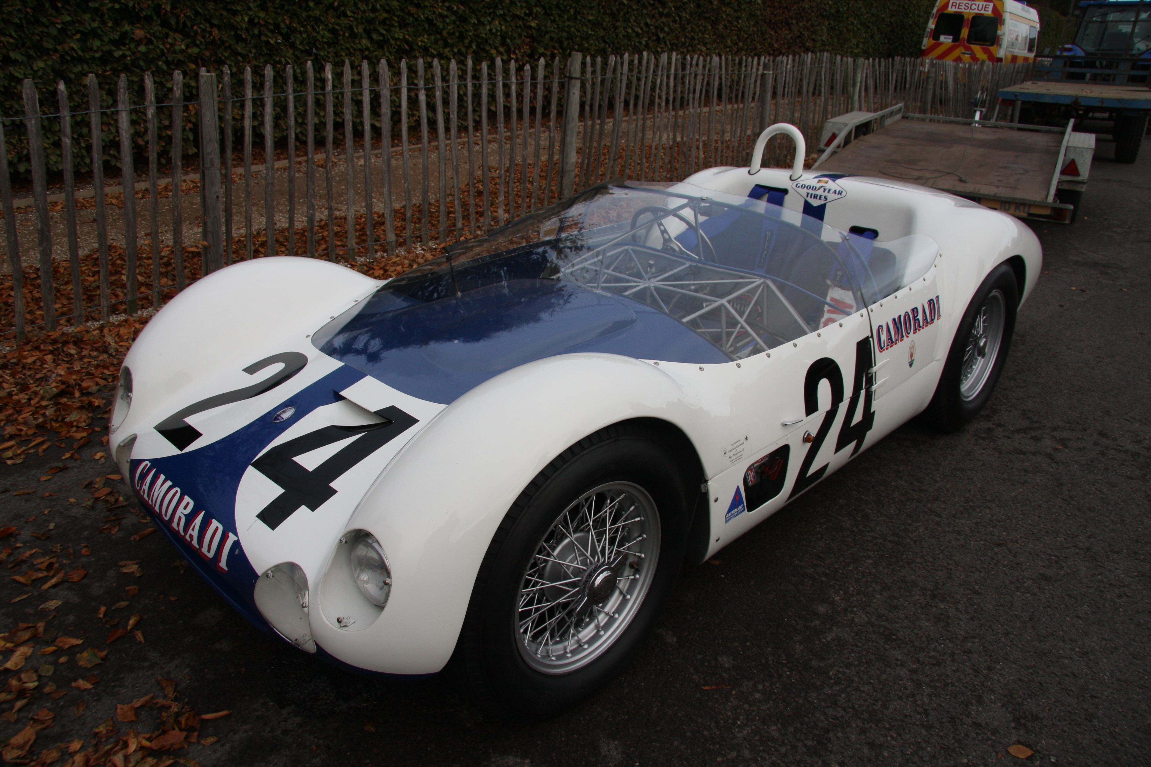 Maserati Tipo 61 The Streamliner 'Birdcage'